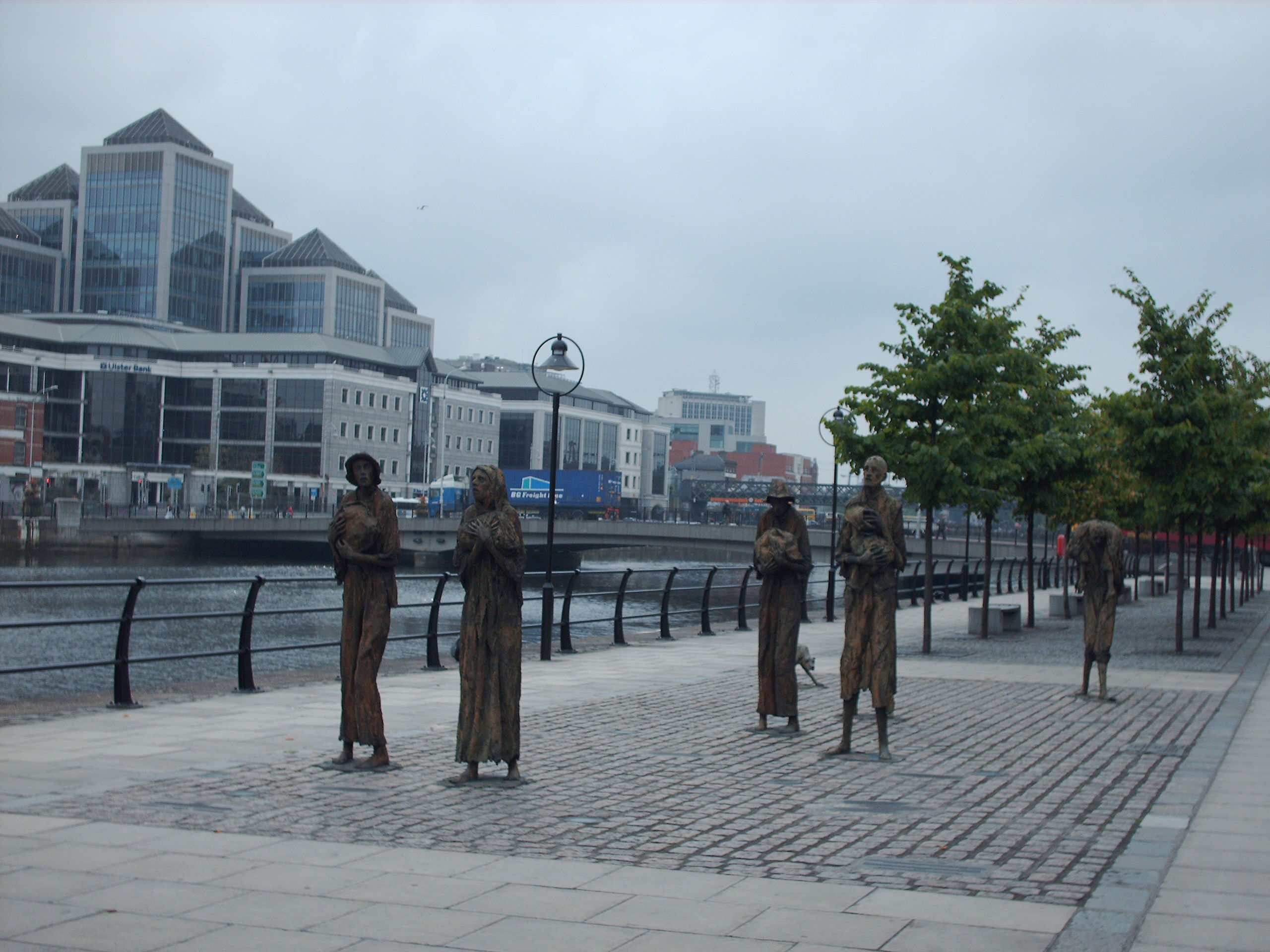 Famine sculpture in front of the International Financial Services Centre, Dublin, Ireland check usage